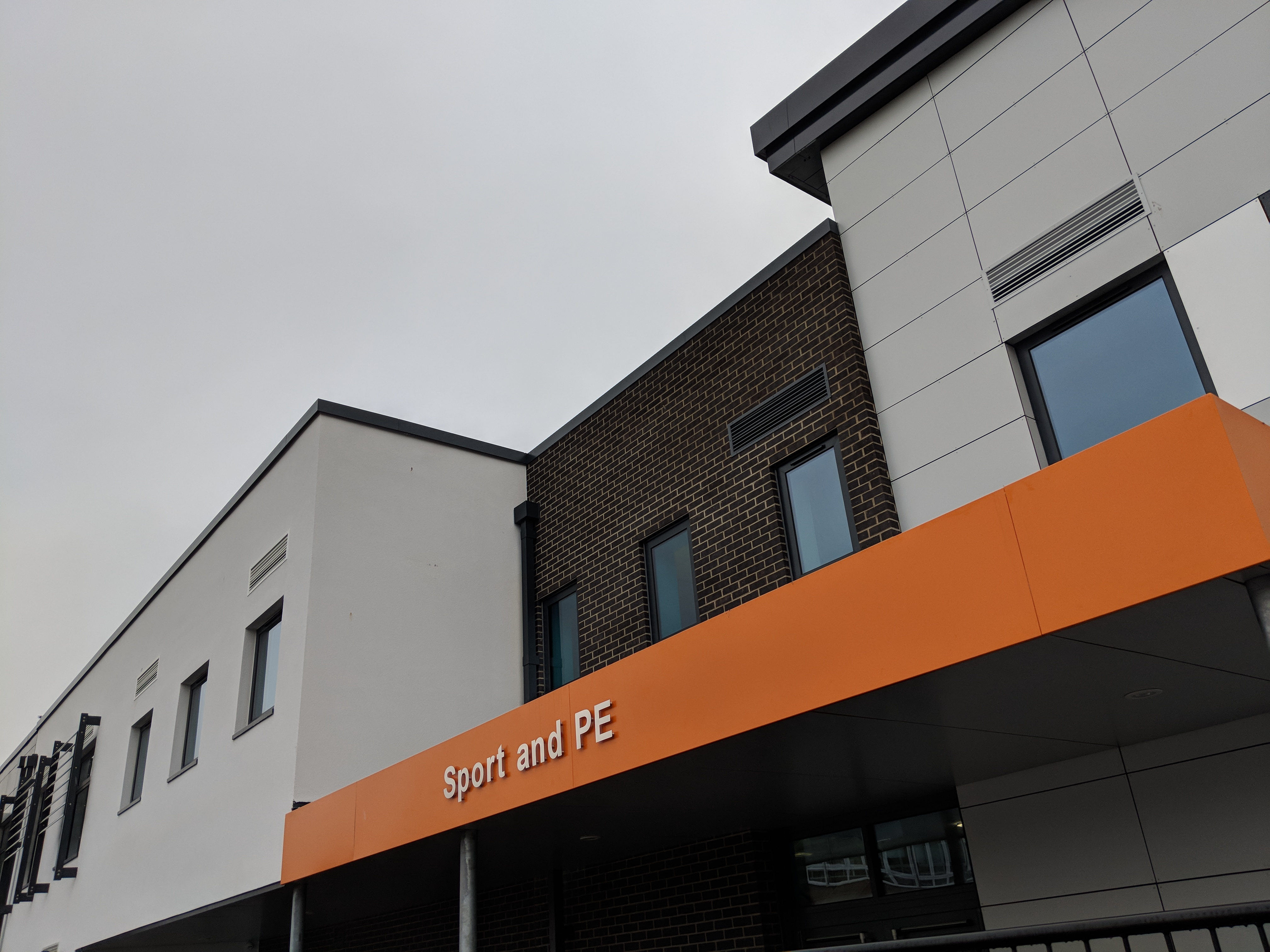 A photograph of the Honiton Community College Sport and PE building on 5 December 2017.